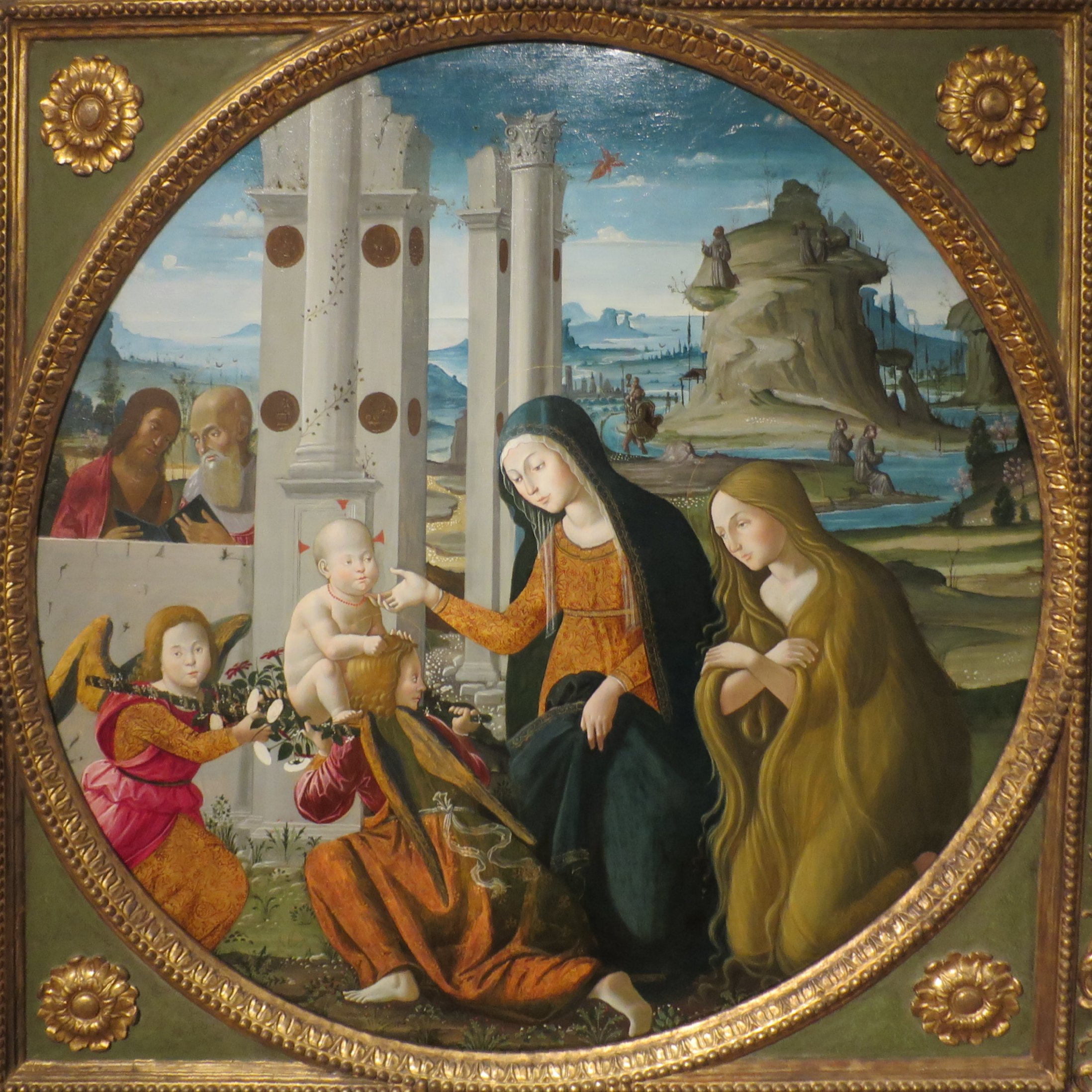 'Madonna and Child with Saints and Angels' by Bernardino Fungai, c. 1510-1515, tempera on wood, Lowe Art Museum